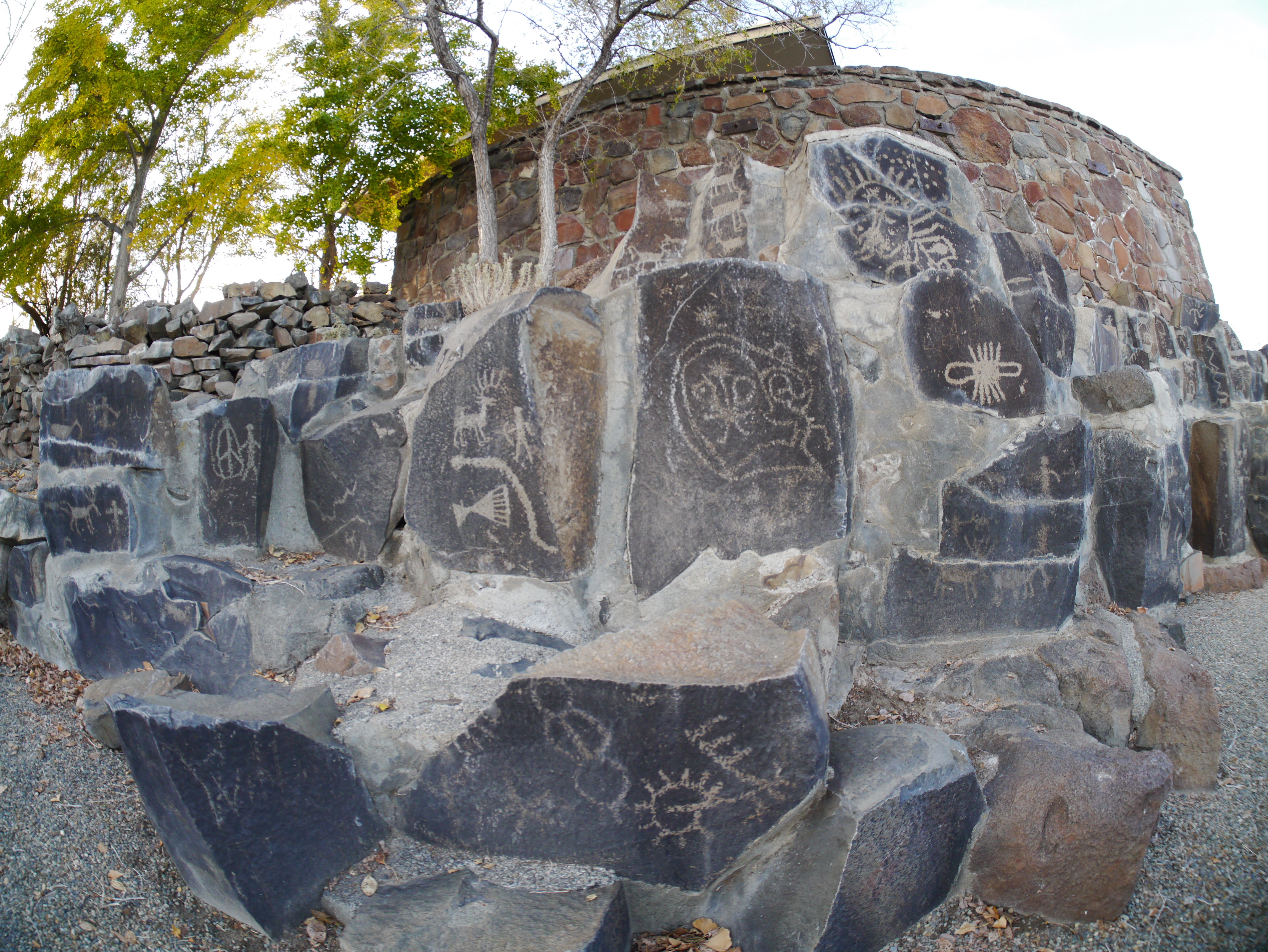 Petroglyphs at Ginkgo Petrified Forest State Park, near Vantage Washington. This indigenous rock art was removed from their original locations when the Columbia River was flooded by hydroelectric dams since they were below the high water mark.